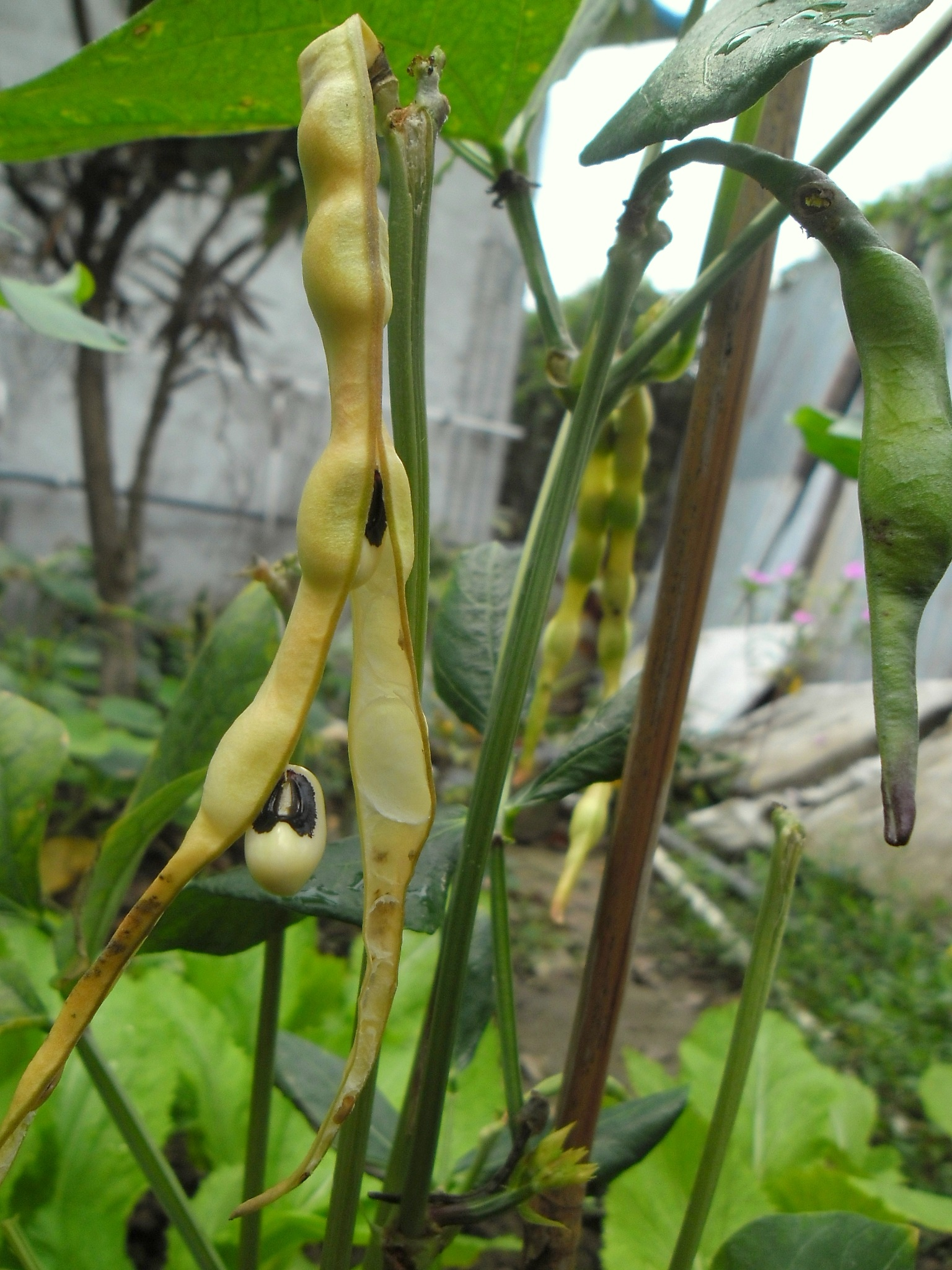 Ripe Black-eyed pea bean pods opening with developing fruits. Grown, and photographed by Earth100.